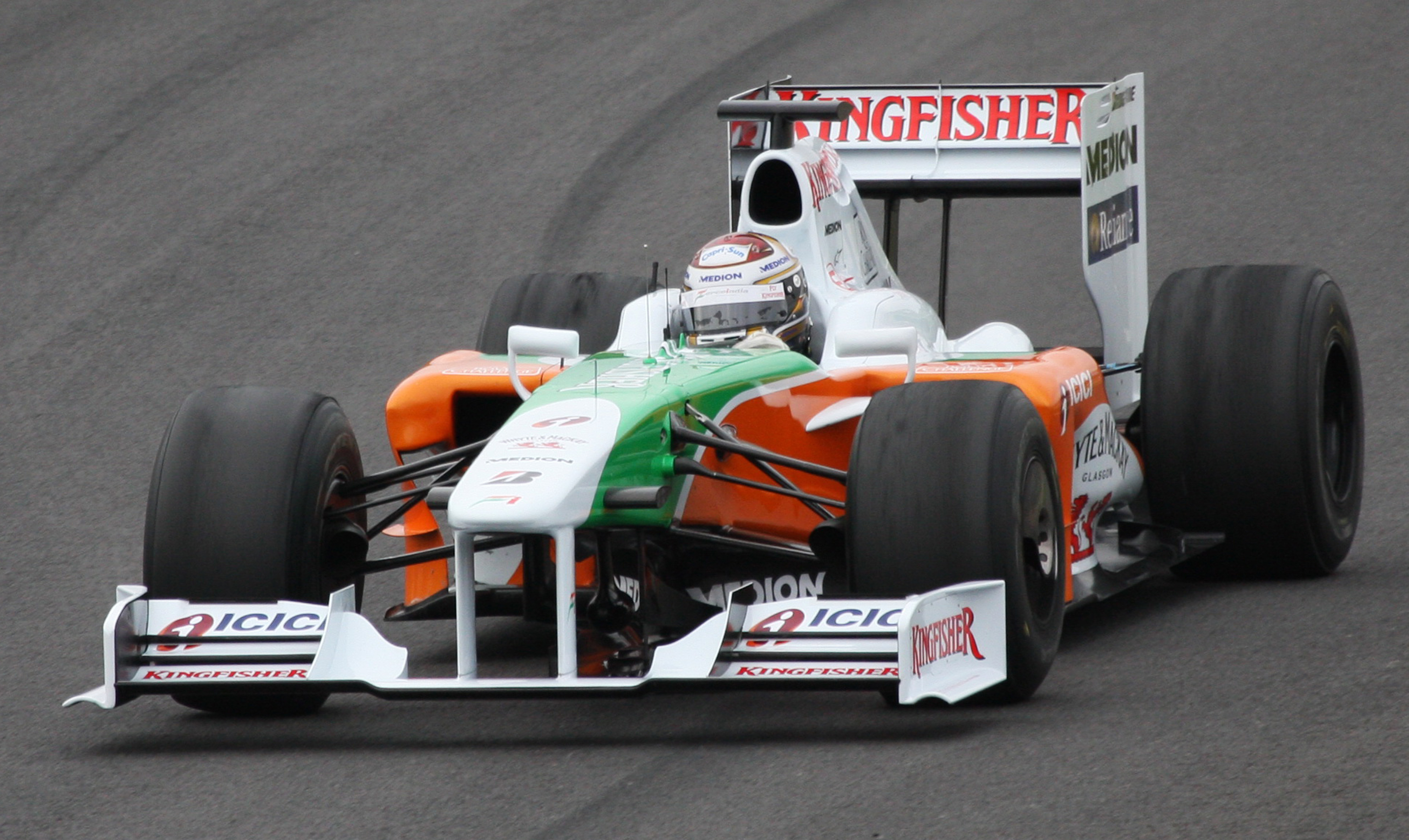 Adrian Sutil in the Force India VJM02, F1 testing session, Jerez 10-Feb-2009